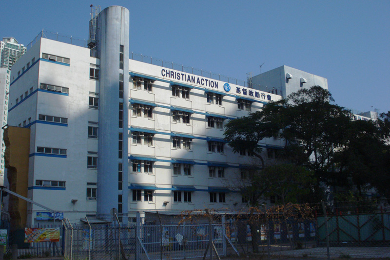 New Horizan Building (新秀大廈), Former Gary Block of Royal Air Force, Hong Kong.